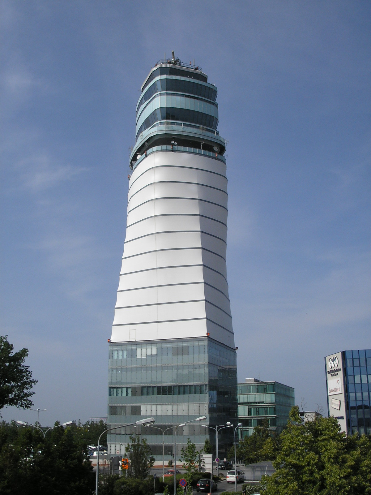 Control tower of Vienna International Airport at Schwechat, constructed in the 2000's.